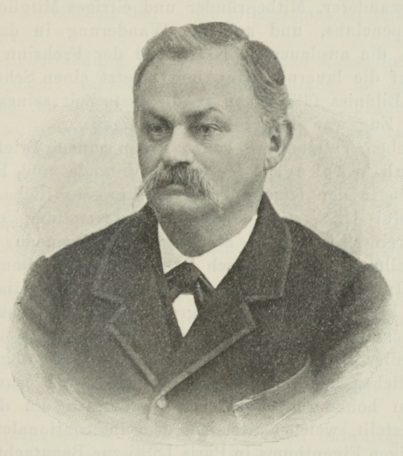 Carl August Koch (1845–1897), Swiss photographer.